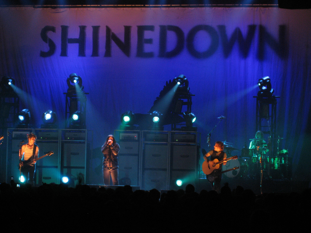 Rock band Shinedown performing at a concert.